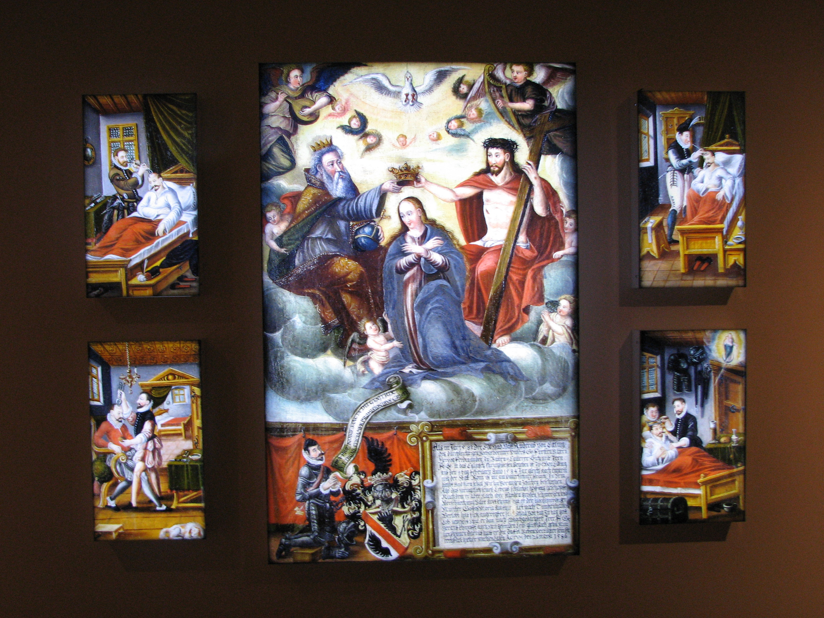 Object of the exhibition "Pain" in Berlin, Germany